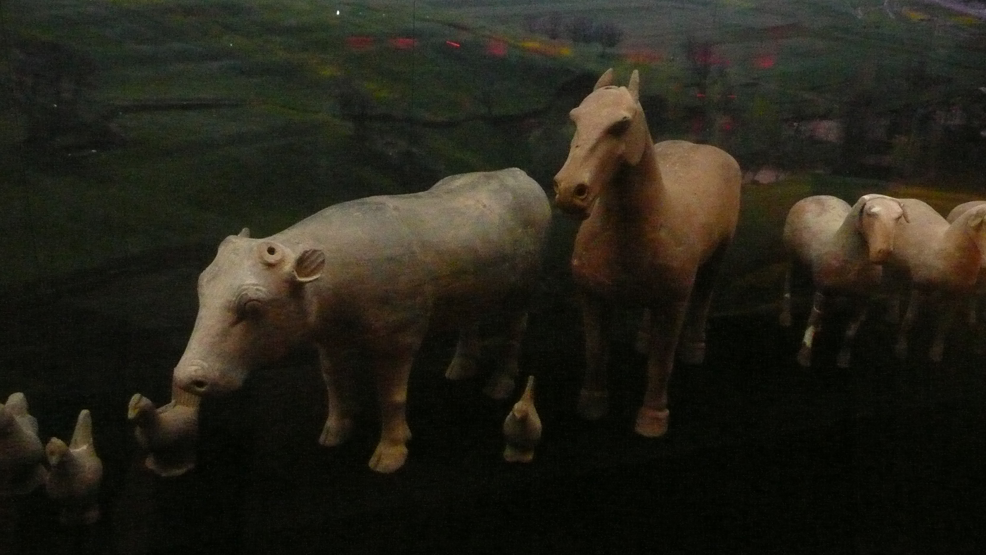 Han Yang Ling - Mausoleum of Jingdi, Han Emperor, Xianyang, near Xi'an